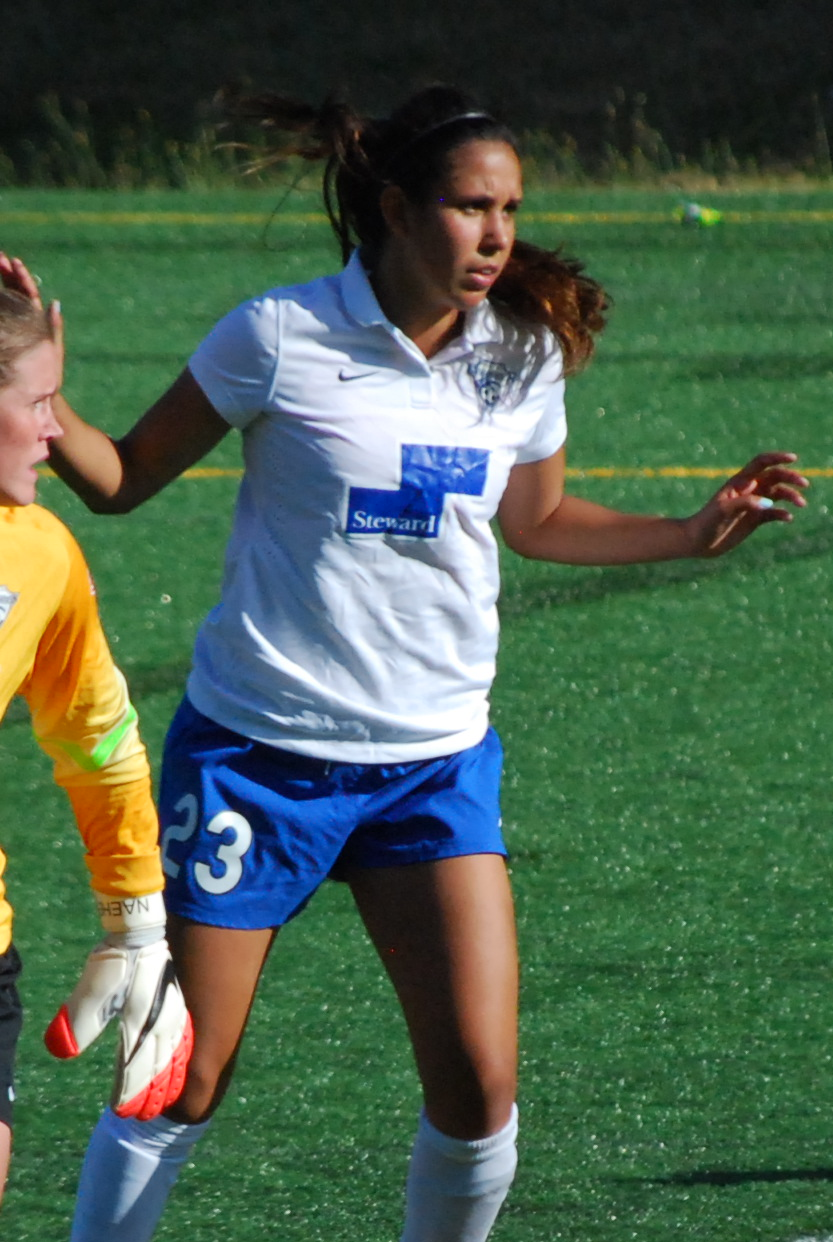 Seattle Reign FC vs Boston Breakers Memorial Stadium, Seattle Center Seattle, WA July 6, 2014